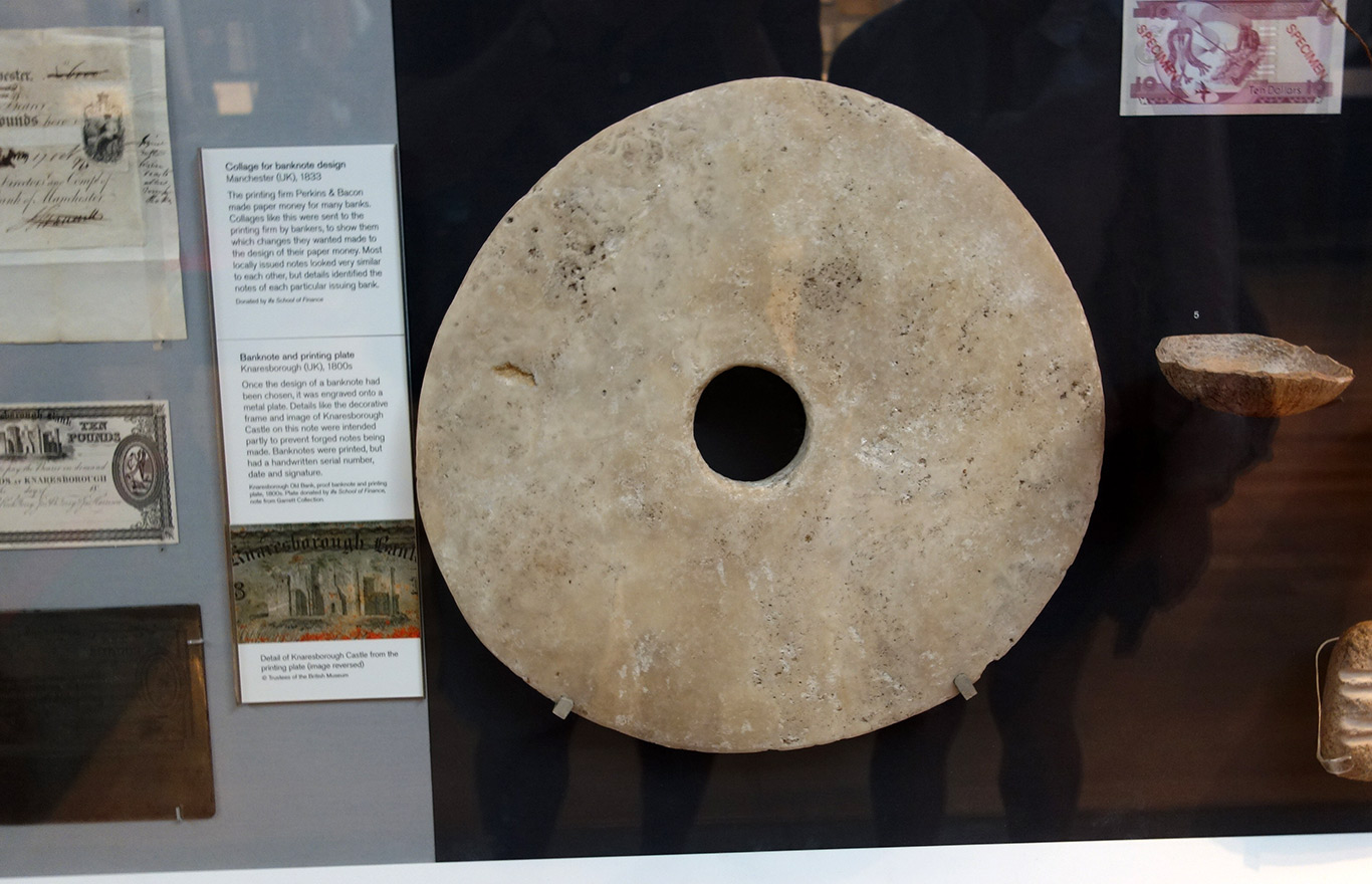 A stone coin used for money in Yap, British Museum, London